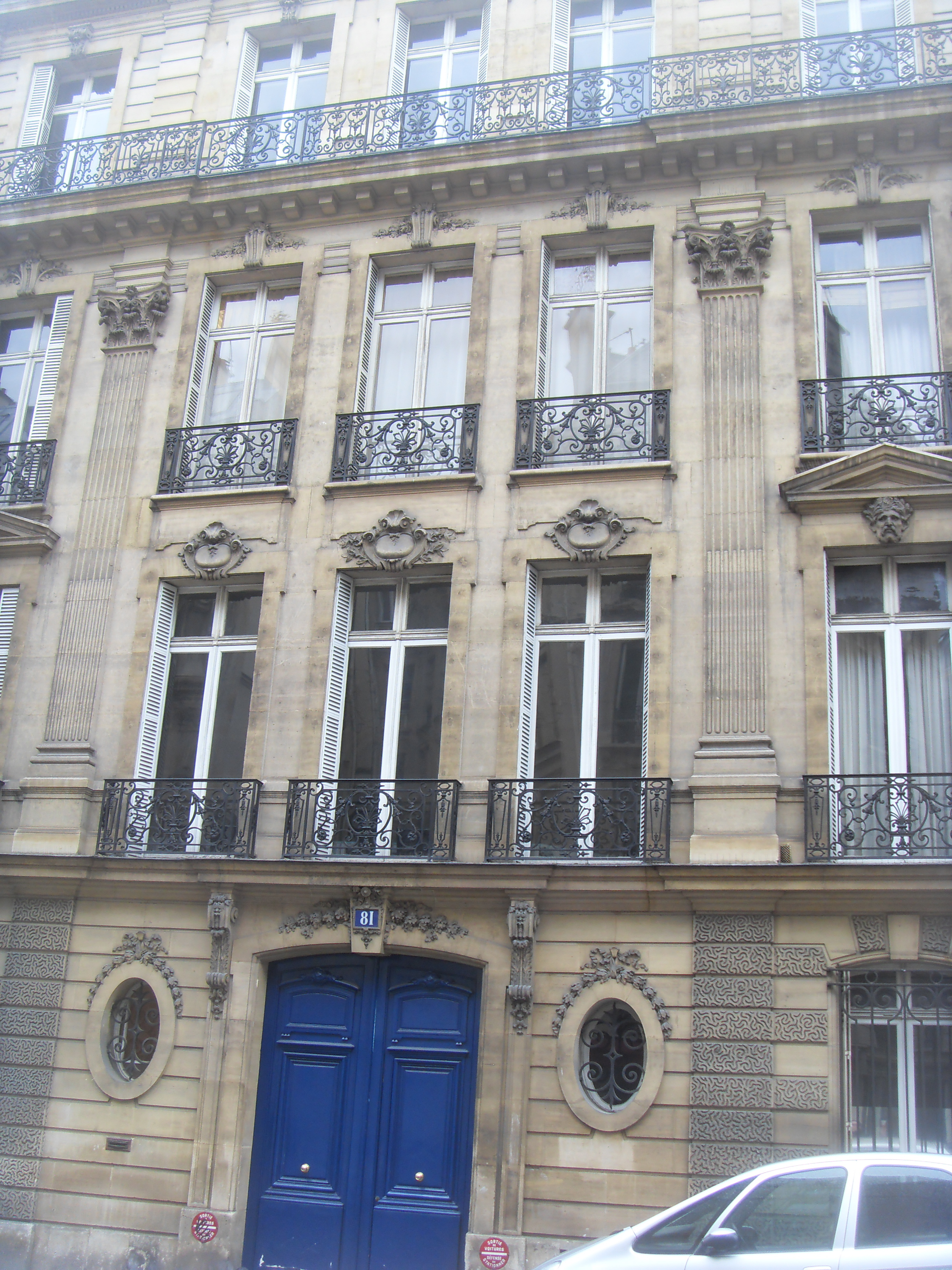 Hôtel Ephrussi, 81 rue de Monceau, Paris (residence of the Ephrussi family)